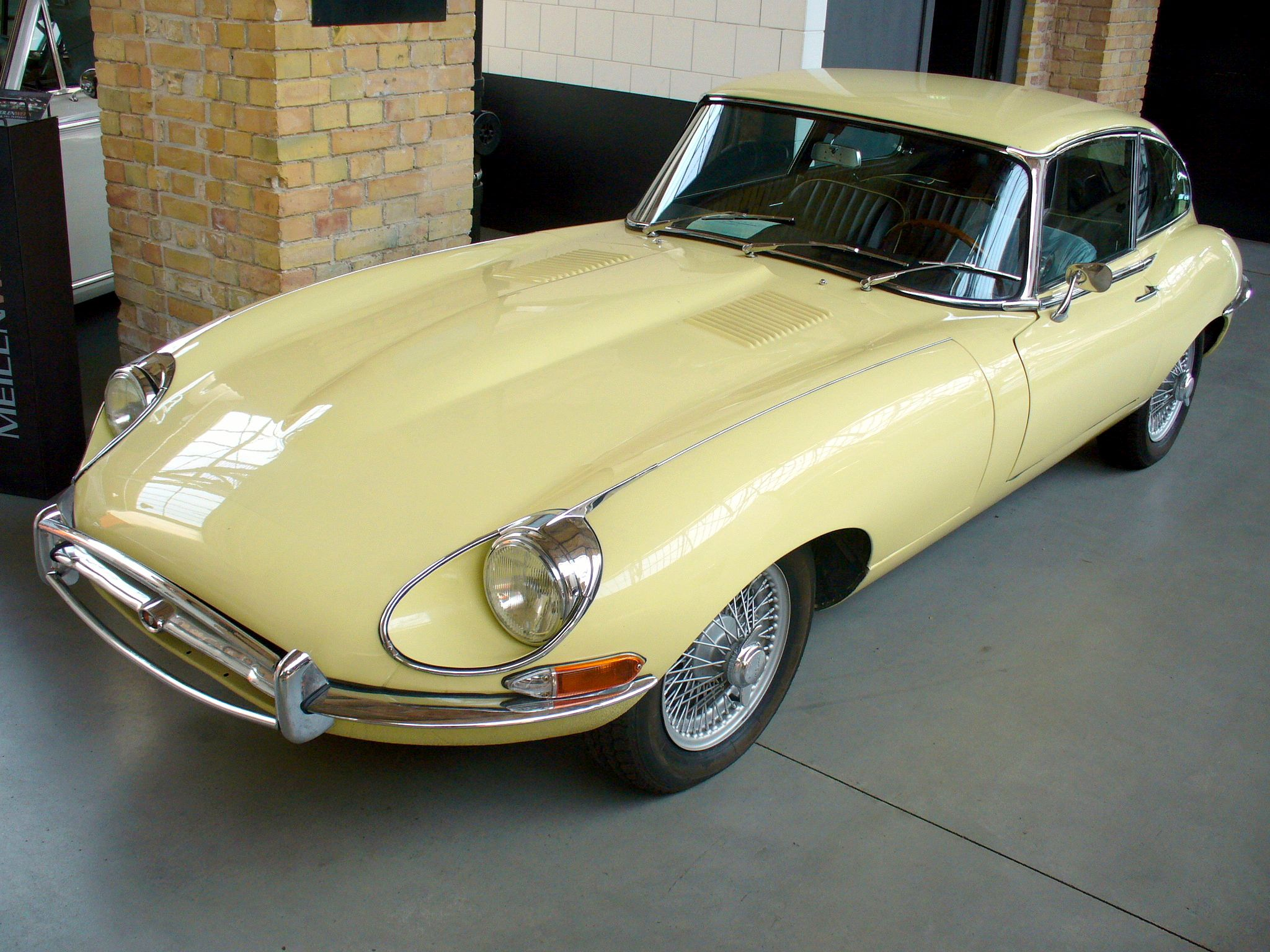 Jaguar E-Type Serie I Coupé